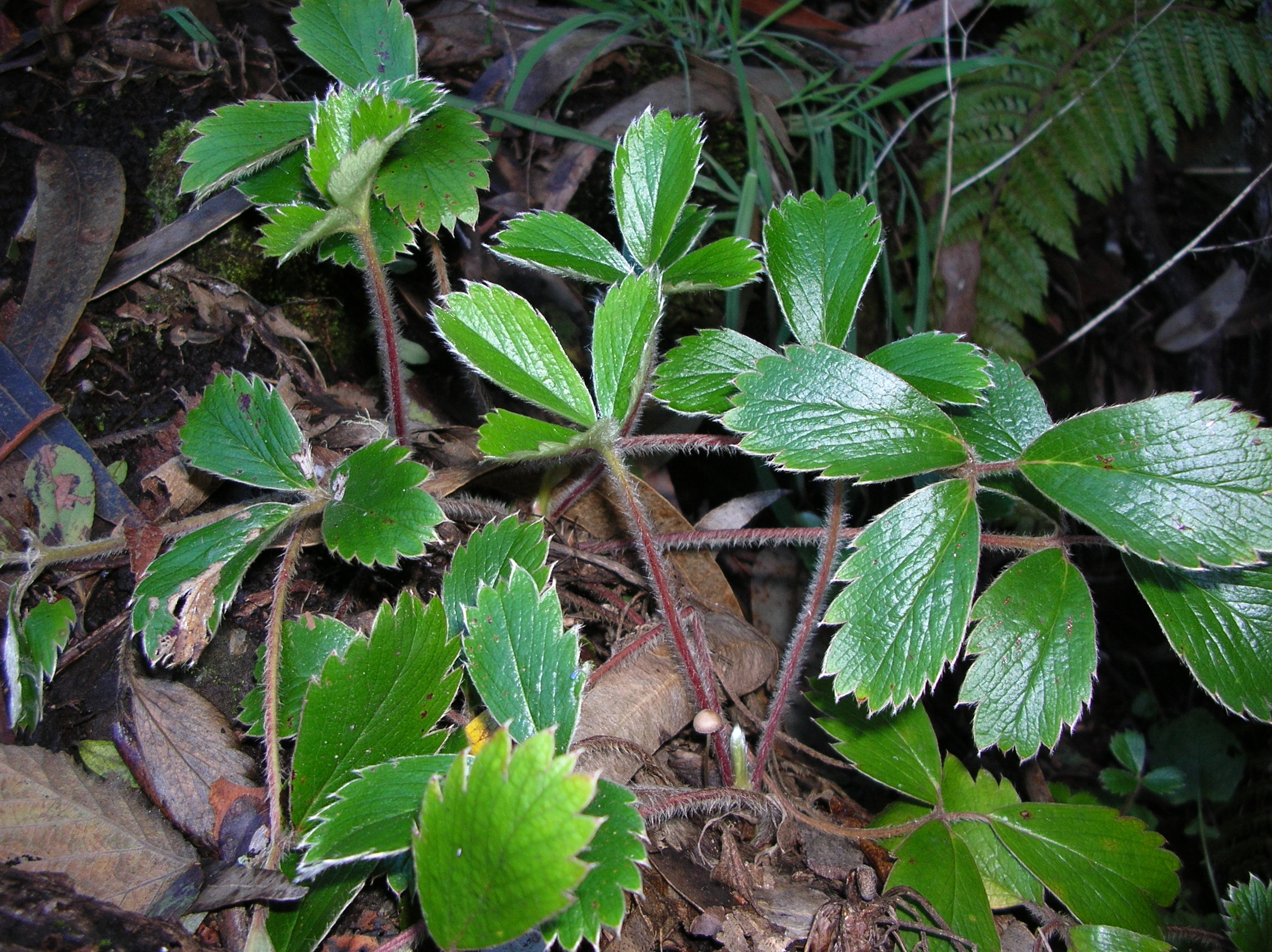 Fragaria chiloensis subsp. sandwicensis (habit). Location: Maui, Puu Nianiau